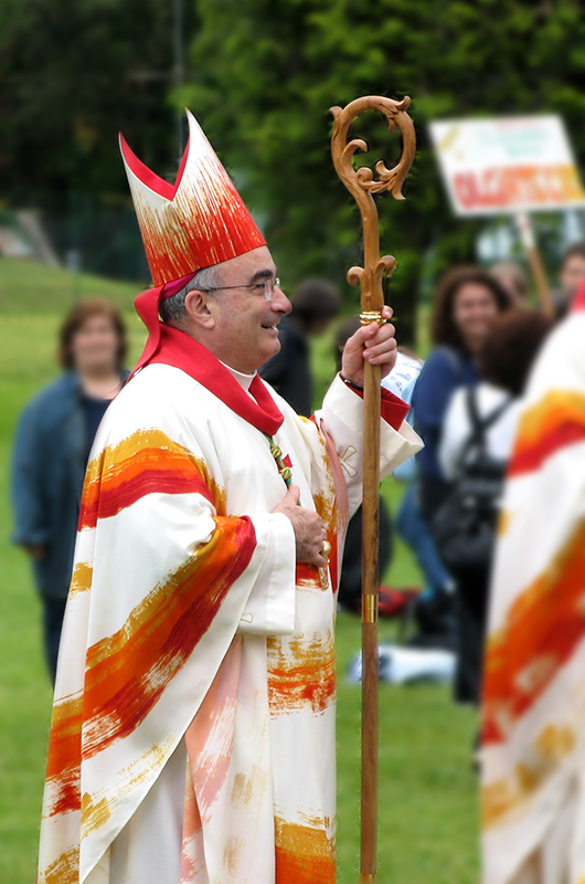 Diego Coletti, since 2006 Catholic Bishop of Diocese of Como